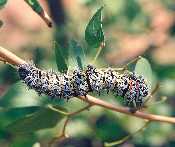 Mopane worm (phane or Gonimbrasia belina) on mopane tree (Colophospermum mopane) in Palapye, Botswana. Phane are actually caterpillars: this one is about 10 cm long and the head is to the right. Taken c.1995 on Fujifilm.